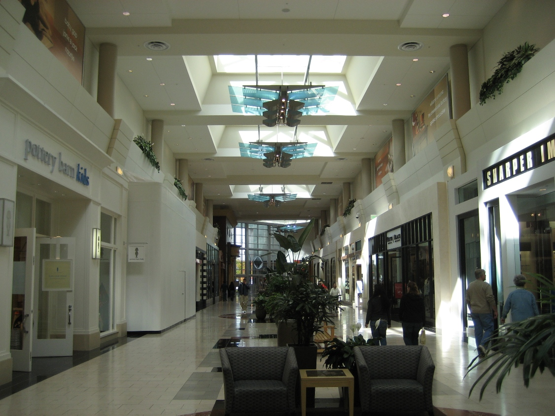 Washington Square, inside the 2000s expansion portion, with Sharper Image on right and Pottery Barn Kids on left